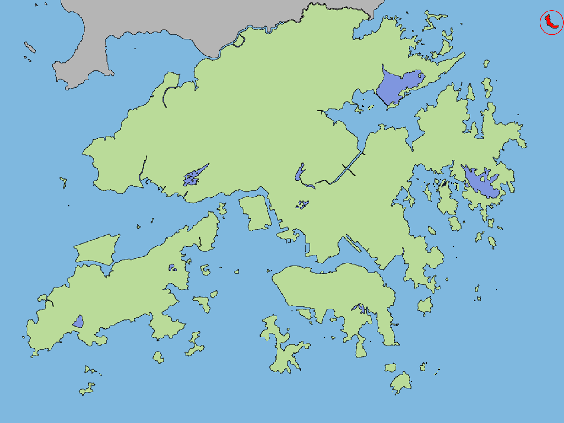 Location map for Ping Chau.